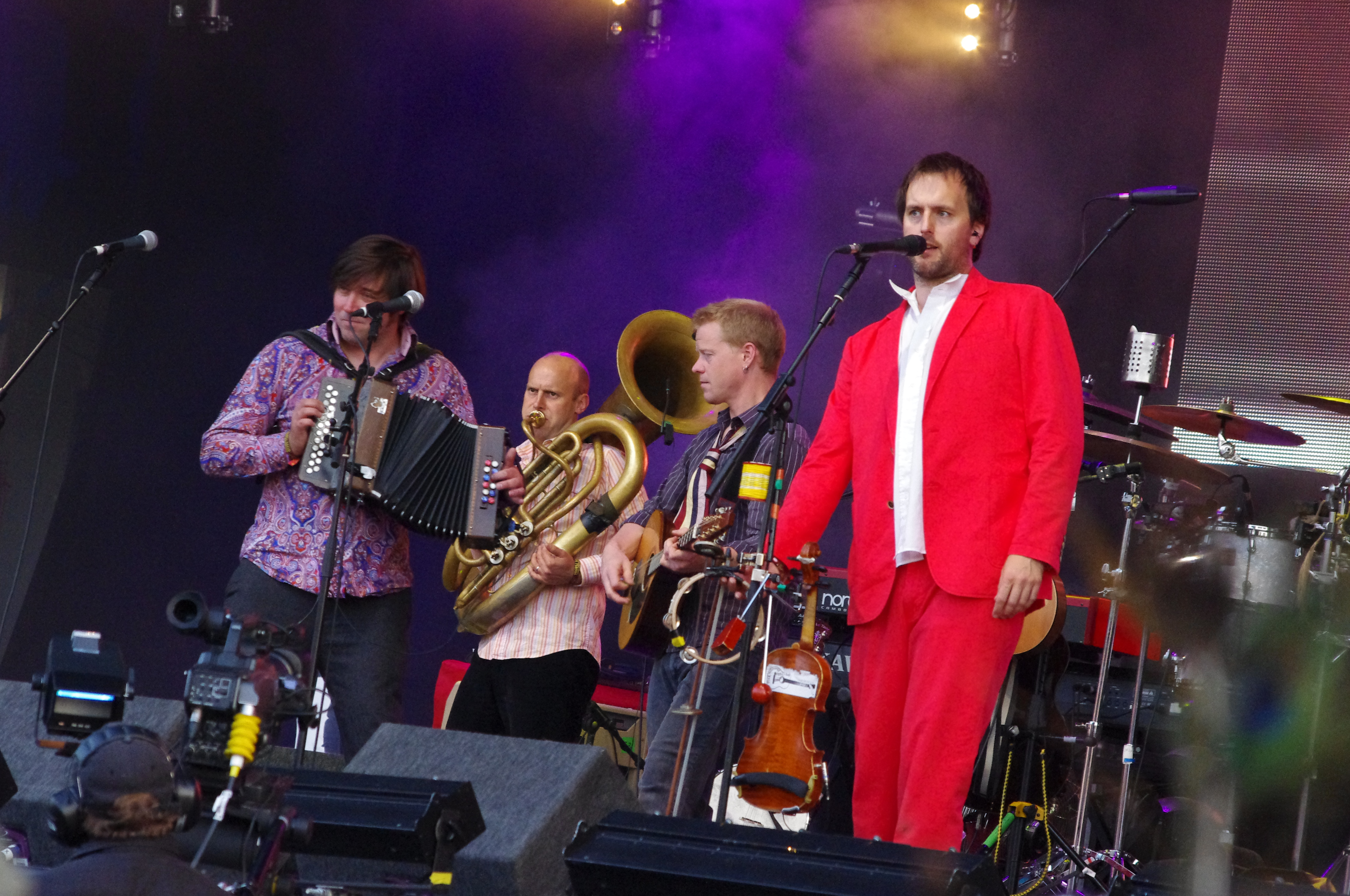 John Spiers, Ed Neuhauser , Benji Kirkpatrick, Jon Boden from Bellowhead, live at Cropredy 2012